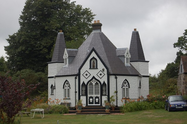 The Birdhouse, Knole Park